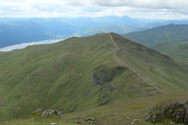 Beinn Ghlas from the western slopes of Ben Lawers This photo was taken by Tithon in July 2005